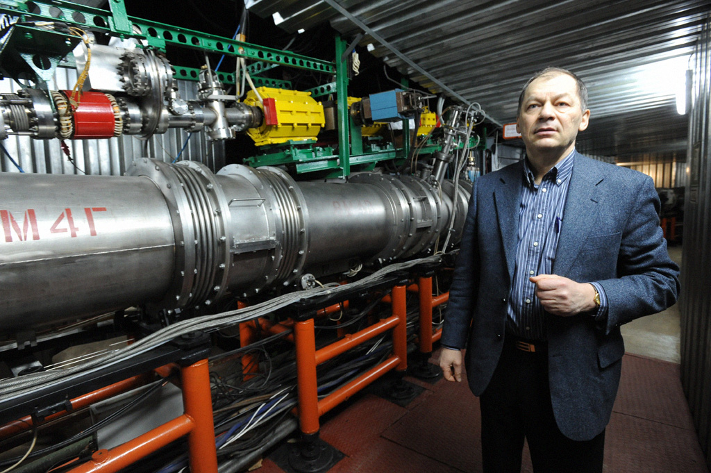 “Joint Institute for Nuclear Research in Dubna hosts seminar on Physics on Large Hadron Collider”. Vladimir Kekelidze, head of the high-energy physics laboratory, at elements of a superconductive nuclear and heavy ion accelerator.